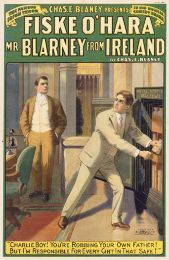 Poster for Mr. Blarney from Ireland starring Fiske O'Hara, 1906. Lithograph, color, 50x75 cm. “ Chas. E. Blaney presentsThe famous irish tenor Fiske O'Hara in his musical comedy dramaMr. Blarney from Ireland by Chas. E. Blaney. ” “ Charlie boy! You're robbing your own father! But I'm responsible for every cint [sic] in that safe!" ”